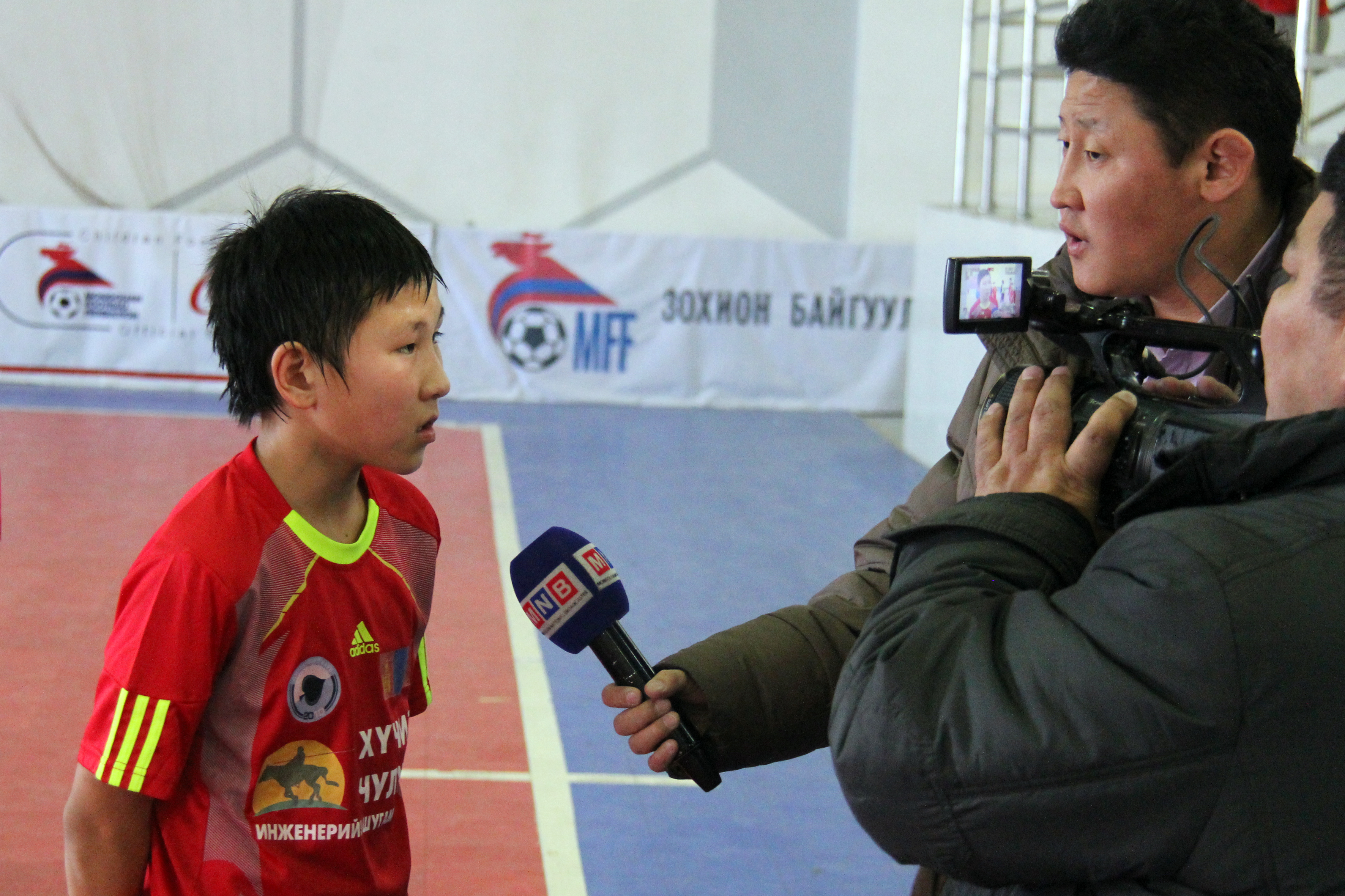 2014 оны шилдэг тоглогч Б.Чойжилсүрэн.